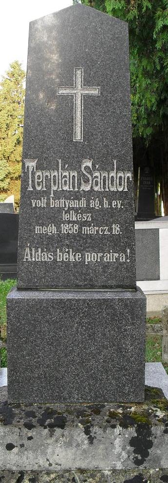 Thomb of Sándor Terplán (1816-1858) Lutheran Priest and Prekmurian writer in Puconci